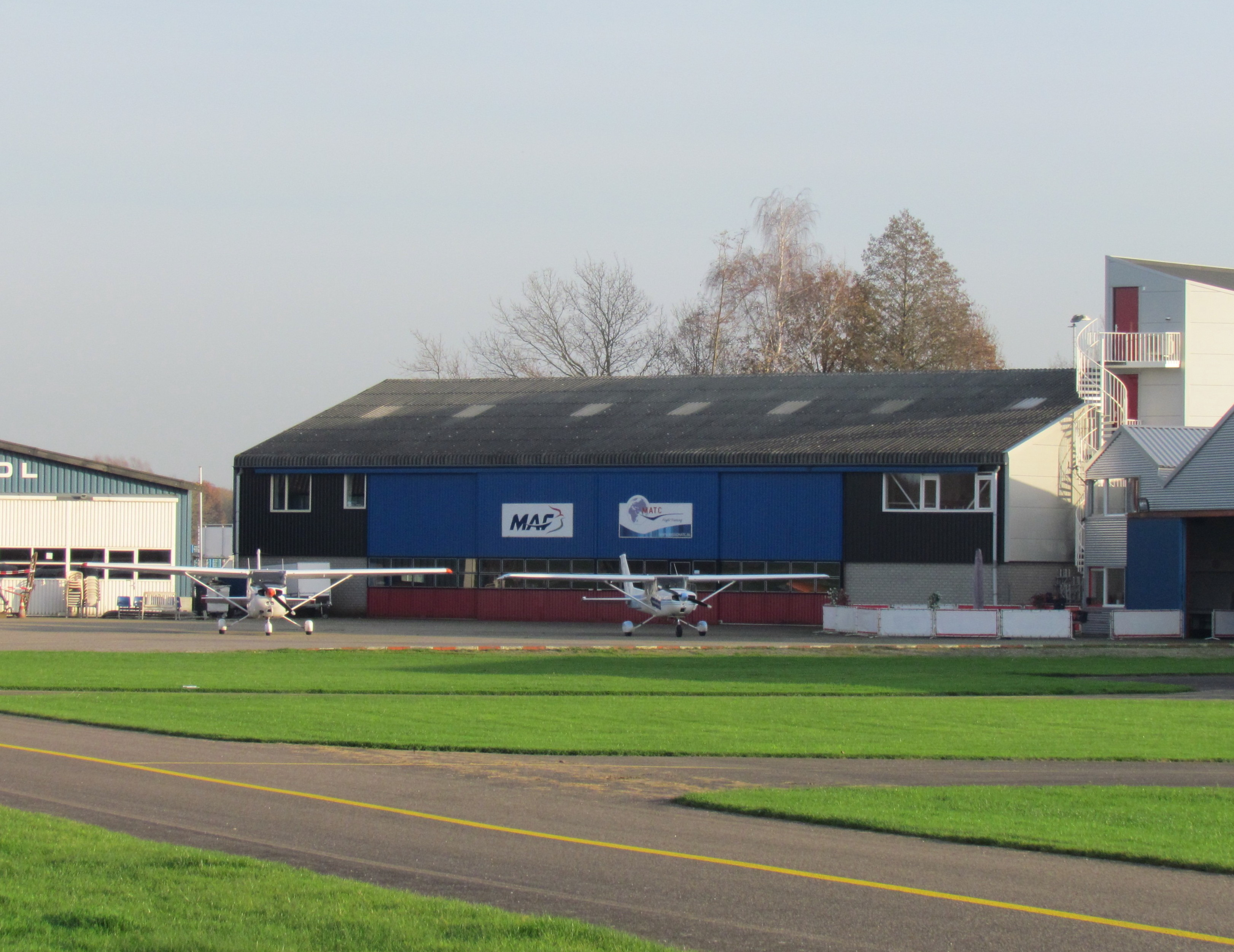 Mission Aviation Training Centre (Mission Aviation Fellowship), Teuge International Airport, the Netherlands